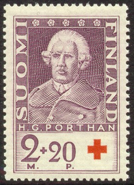 Postage stamp depicting Henrik Gabriel Porthan, the Father of Finnish History